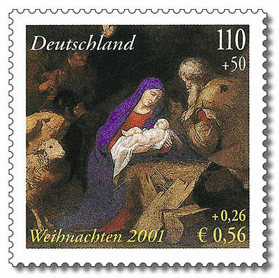 Stamp from Deutsche Post AG from 2001, Christmas: Worship of herdsmen